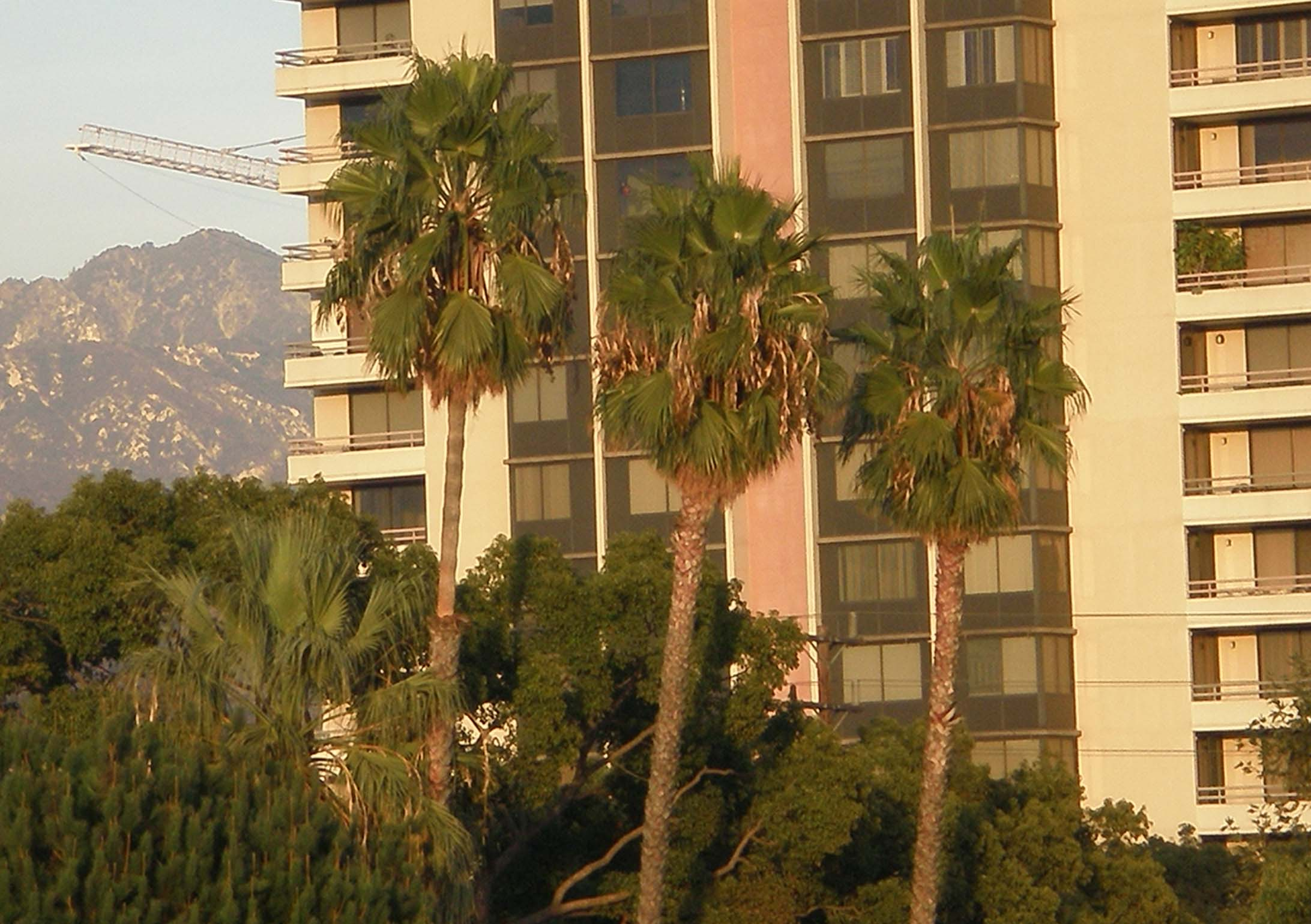 A set of three Washingtonia filifera palm trees in front of a Glendale hotel, taken from a balcony.